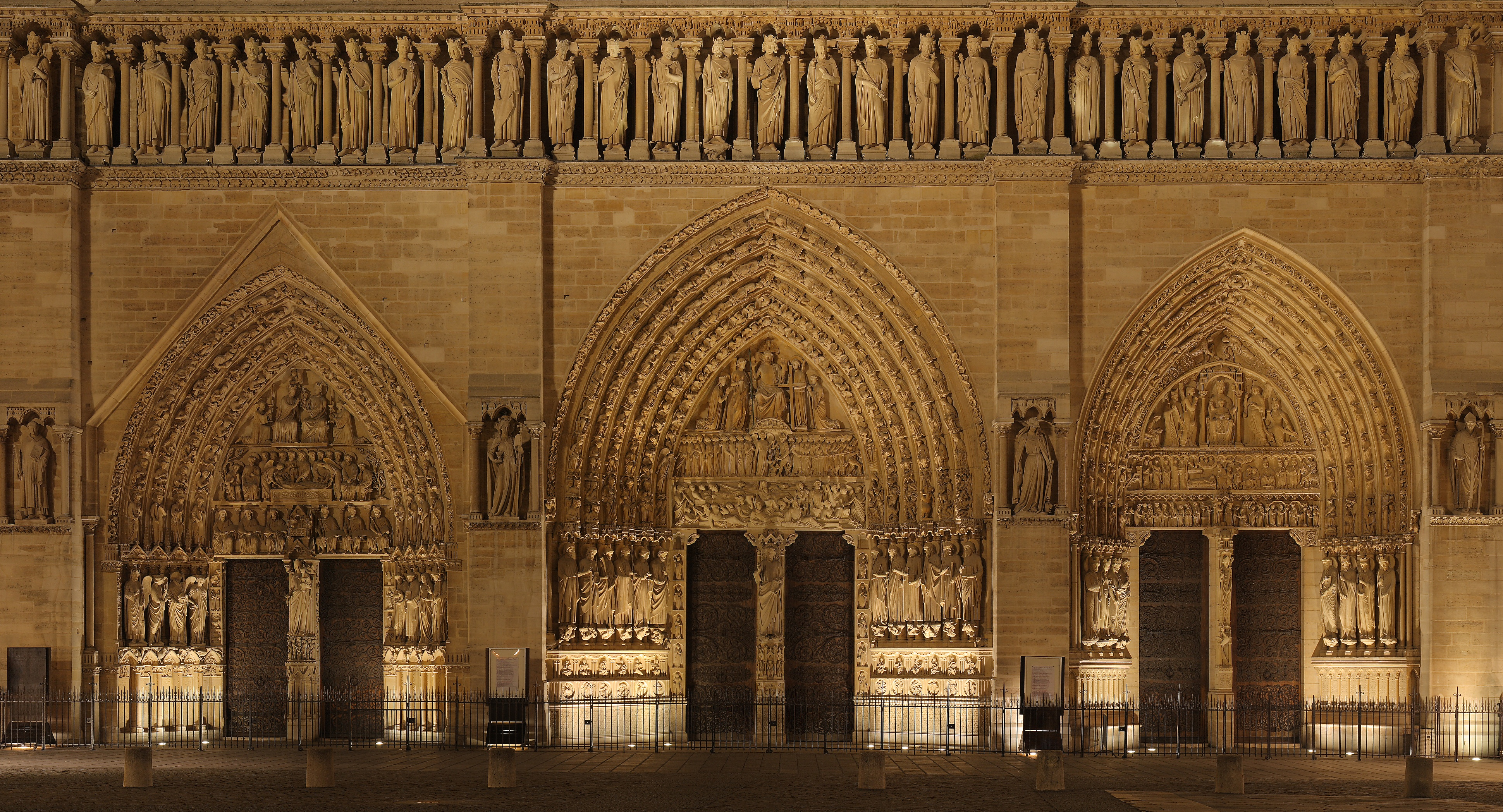 Lower part of the front façade of the Notre-Dame Cathedral, in Paris, at night. On the upper part, the 28 kings of Judea and Israel. On the lower part, from left to right, the portal of the Virgin, the portal of the Last Judgement, and the portal of Saint-Anne. This picture is a mosaic of 12 photos (4x3) taken with a Canon EOS 400D+EF-S 17-55mm f/2.8 IS, at 55mm, f/8.0, 6 sec and ISO 100. Stitching was done with Hugin and Enblend.